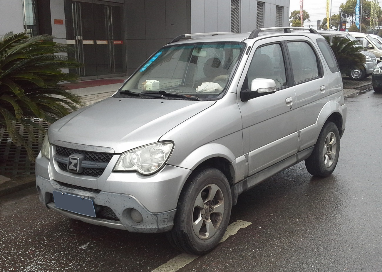 Zotye 5008 photographed in Shanghai, China.